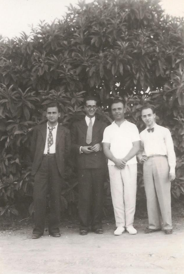 José Santacreu, Abel Mus, José Iturbi, Vicente Asencio. Castellón. 30s